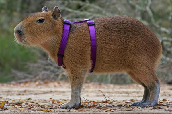 Caplin Rous, a four month old male pet capybara living in Texas.